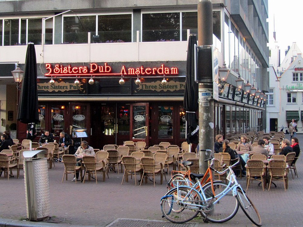 Three Sisters Pub at Rembrandt square in Amsterdam, a typical venue of the late Dutch bar tycoon Sjoerd Kooistra